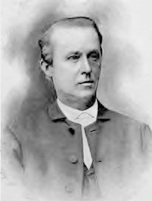 Victor Witting (1825-1906)